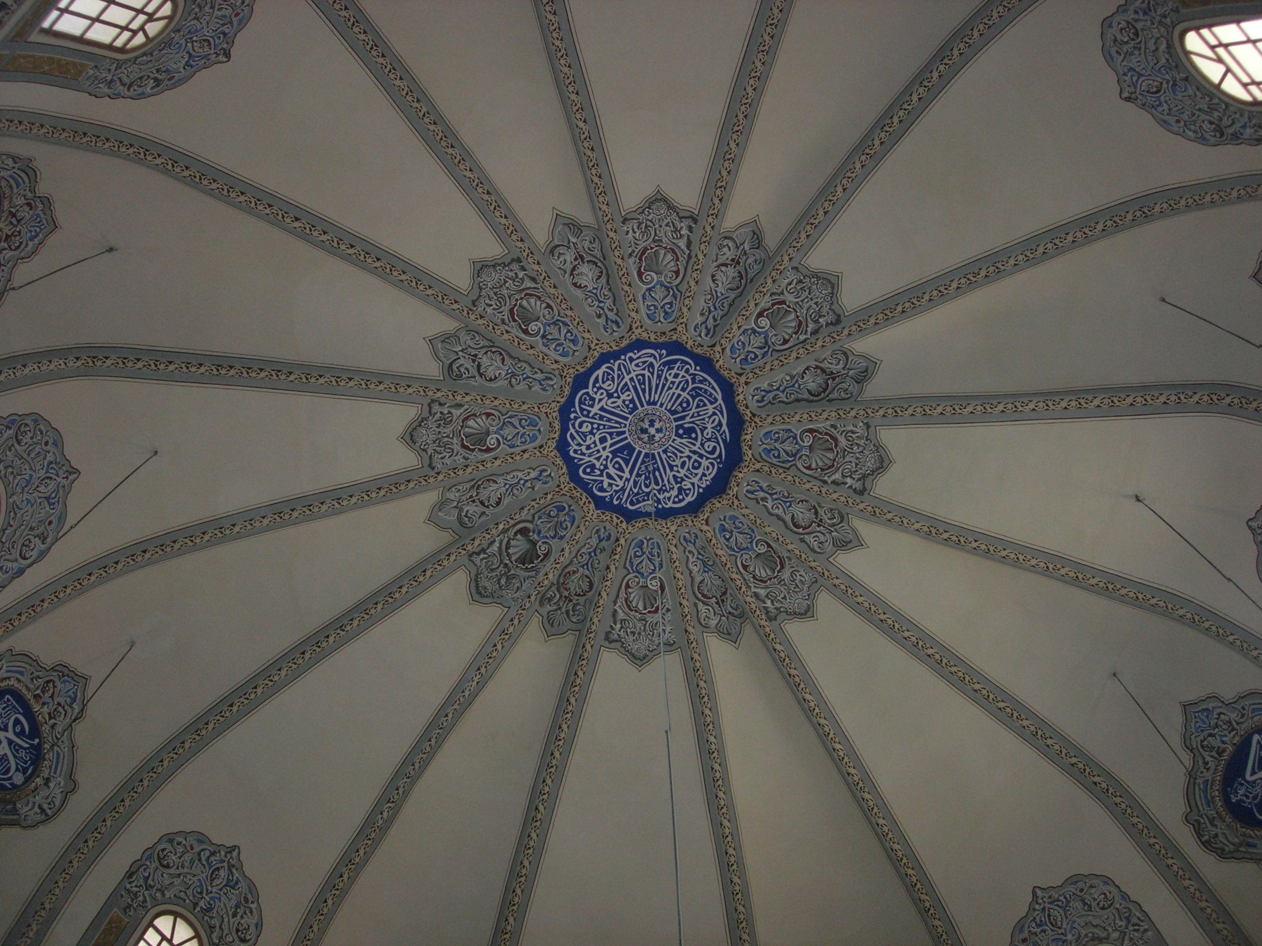 The Dome of the former Church of Saints Sergius and Bacchus( today mosque of Little Hagia Sophia) in Istanbul